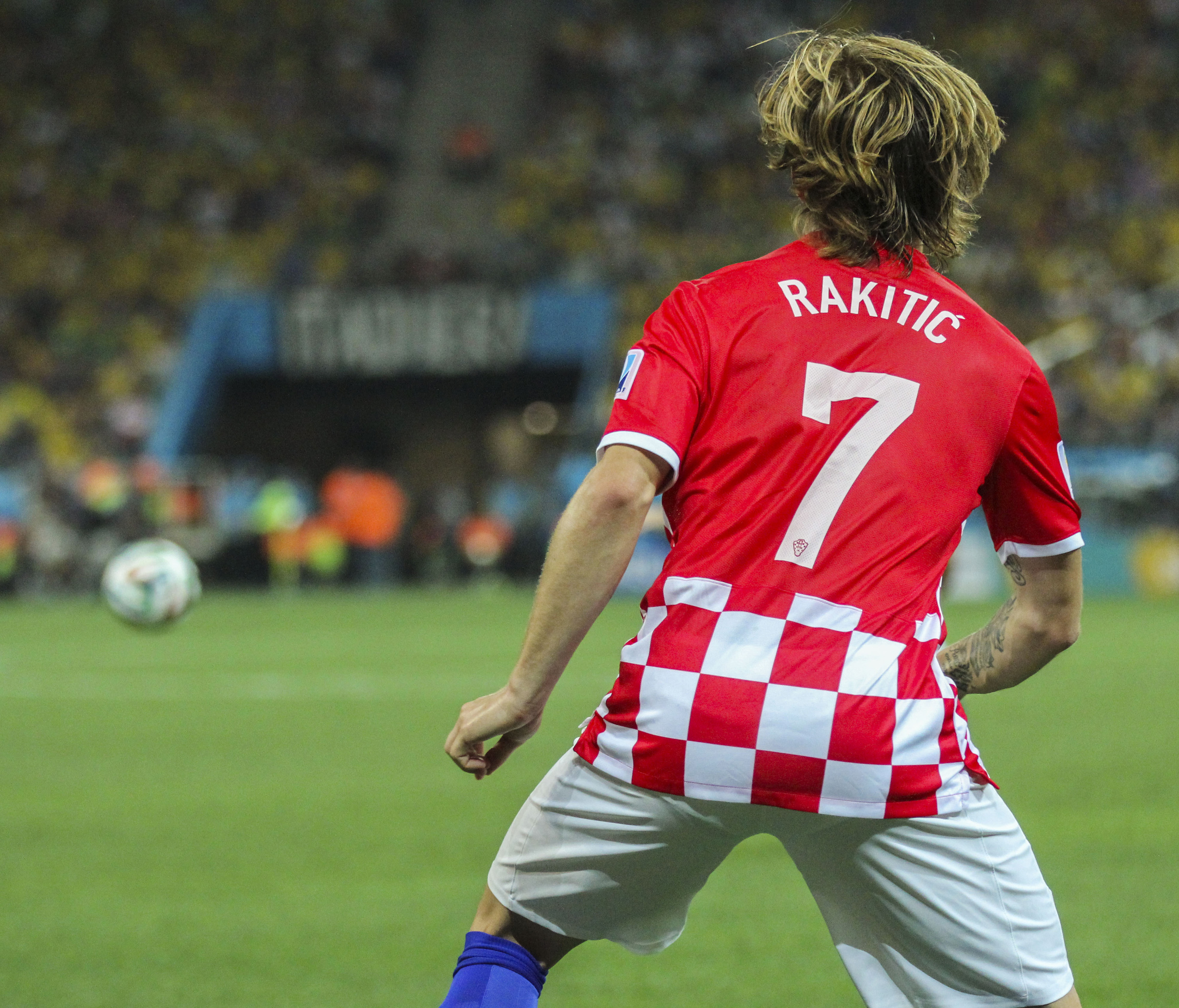 Brazil and Croatia match at the FIFA World Cup 2014-06-12